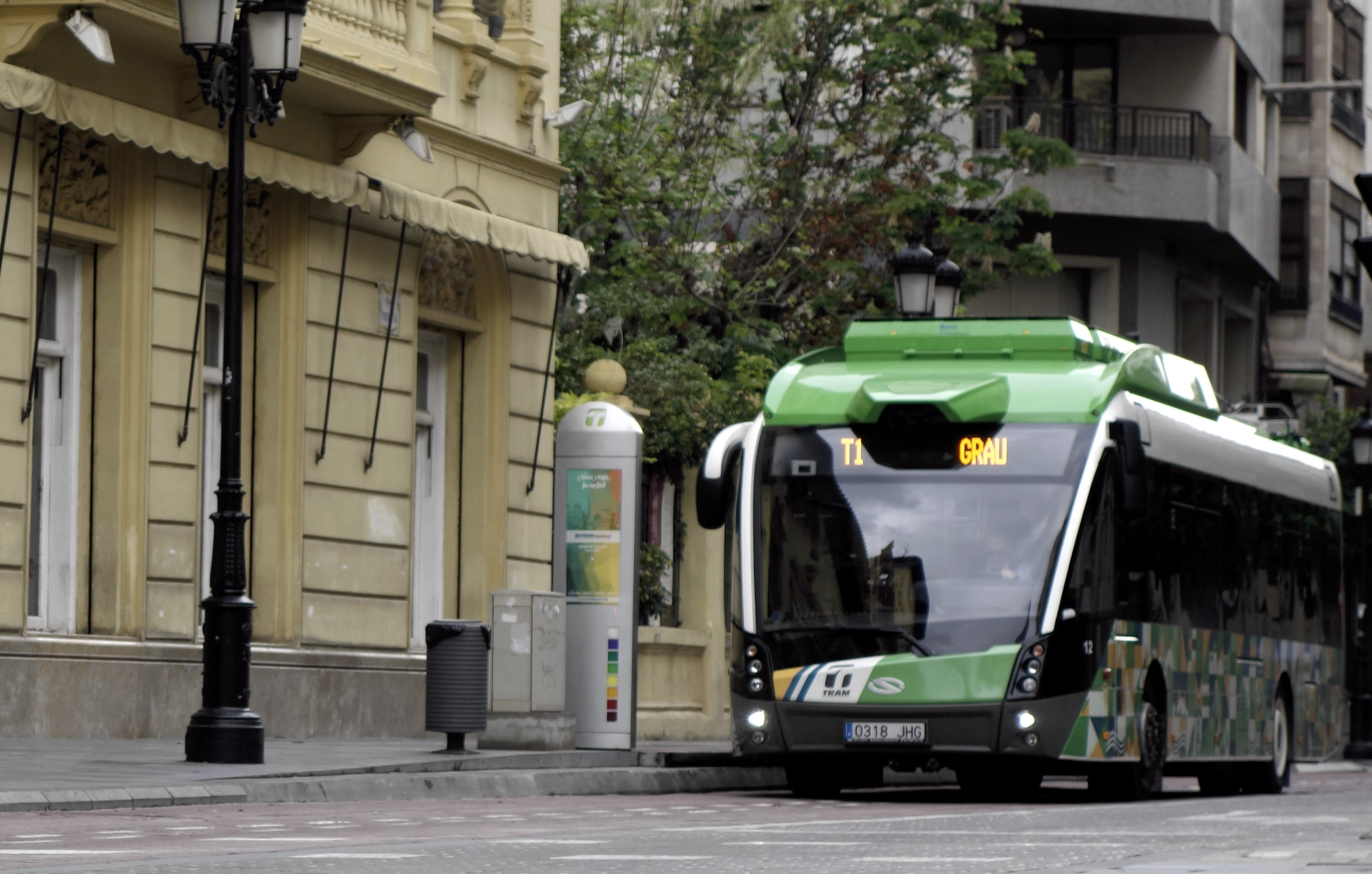 A Solaris Trollino 12 MetroStyle trolleybus in Castellón de la Plana, Spain, operating on batteries, on a section of the line that lacks overhead trolley wires.